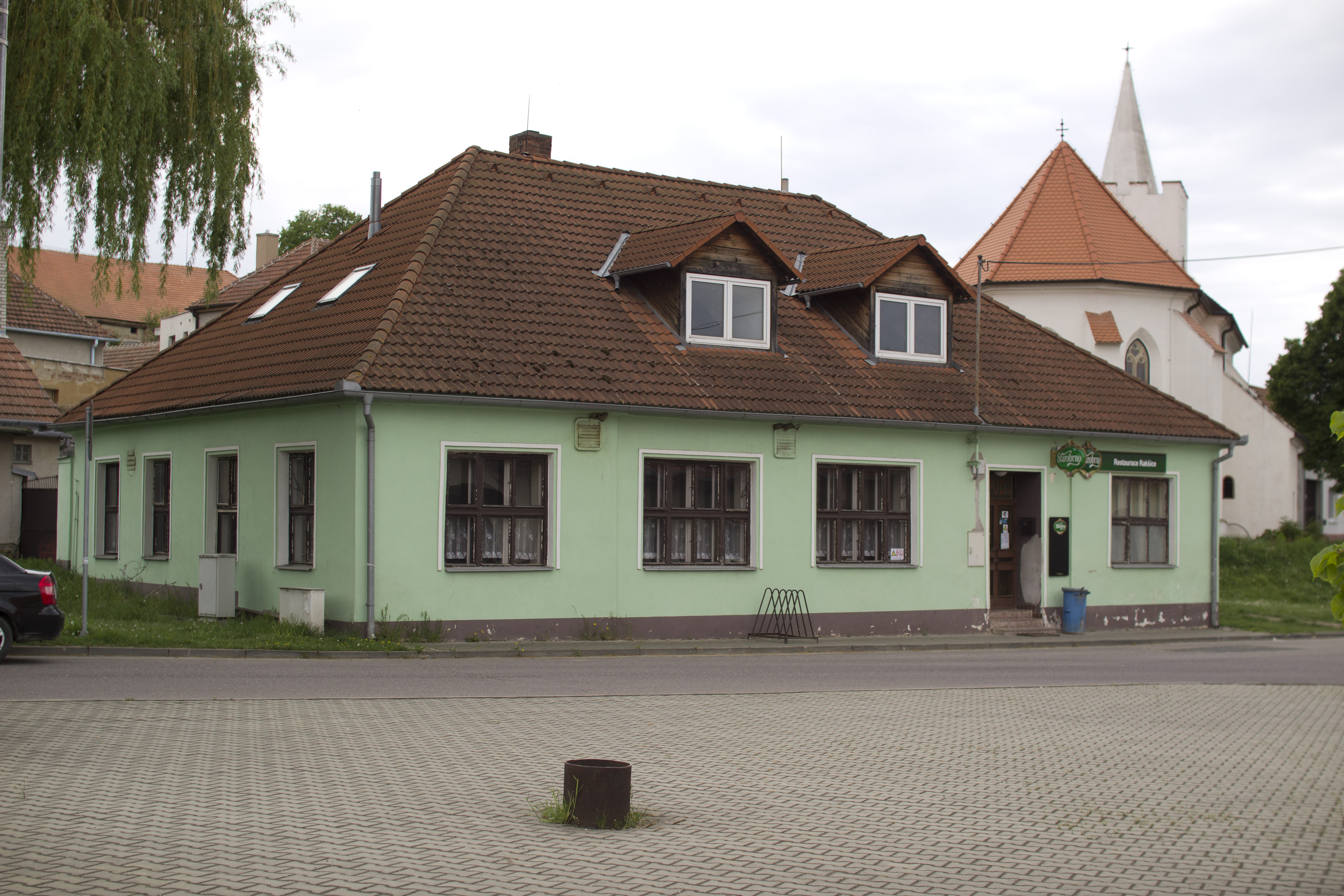 Pub, Rakšice, Moravský Krumlov, Znojmo District, South Moravian Region, Czech Republic